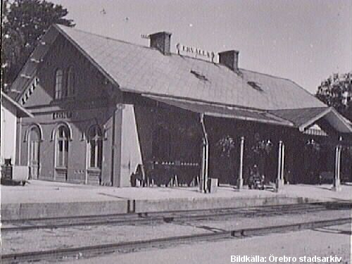 Ervalla railway station, Sweden